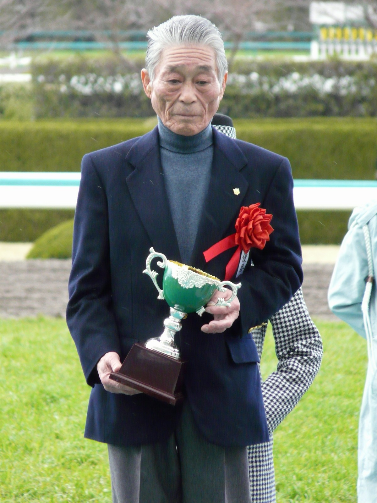 Masaru-Sayama20090314